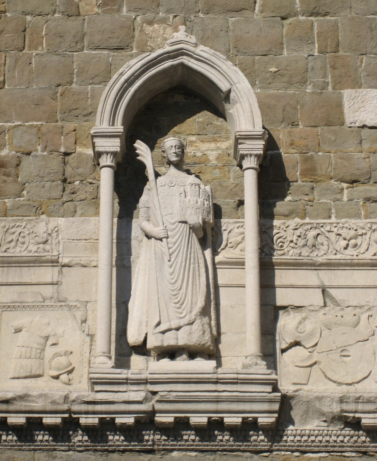 Statue of San Giusto in the Campanile of the Cathedral of Trieste.